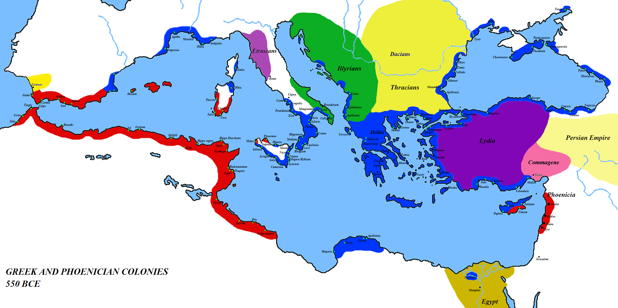 Map of the colonies of Ancient Greece and Phoenicia — circa 550 BCE. Also other regional 'dynasties' of the Mediterranean region.